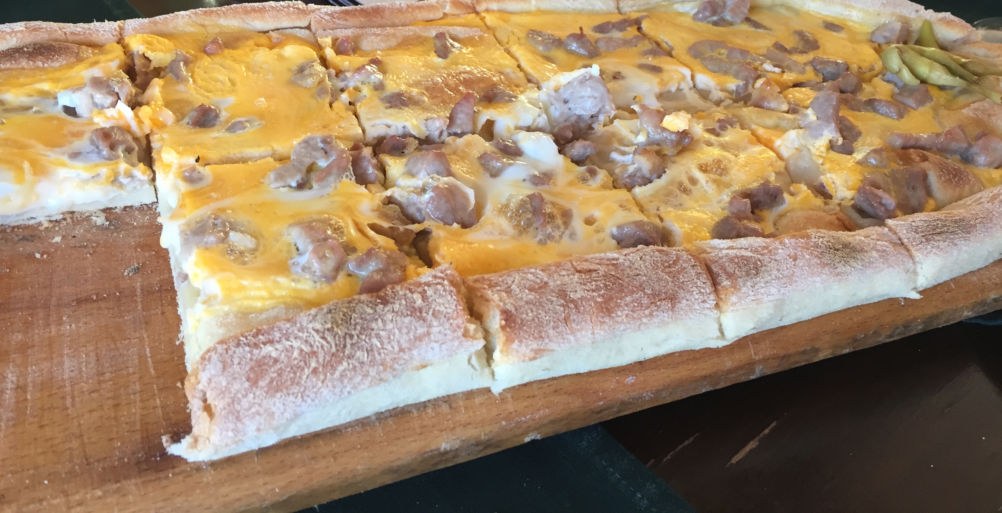 Piece od Negotino pie